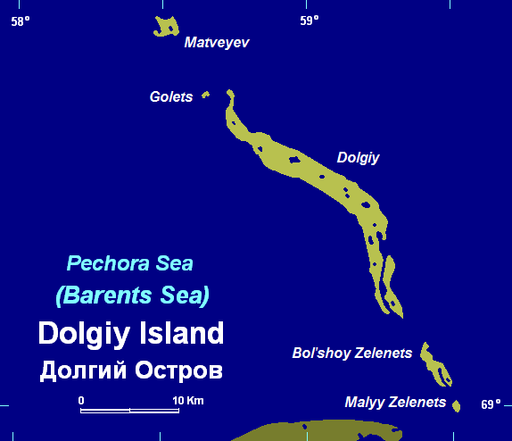 color island map